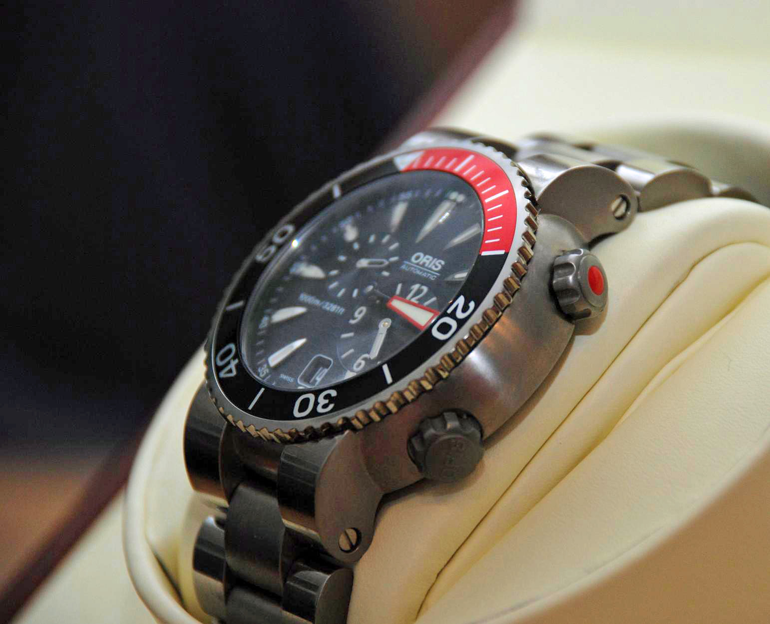 Image of the Oris Regulateur "Der Meistertaucher", a 1000 m diving watch from Swiss watch manufacturer Oris. The regulator movement shows the hours and seconds away from their usual central position, it is the minutes that take centre stage. The minute display, which is of paramount importance to the scuba diver, is thus given most prominence. This watch conforms to ISO 2281 for 1,000 m (3,300 ft) water resistance and not to ISO 6425 for actual diver's watches.